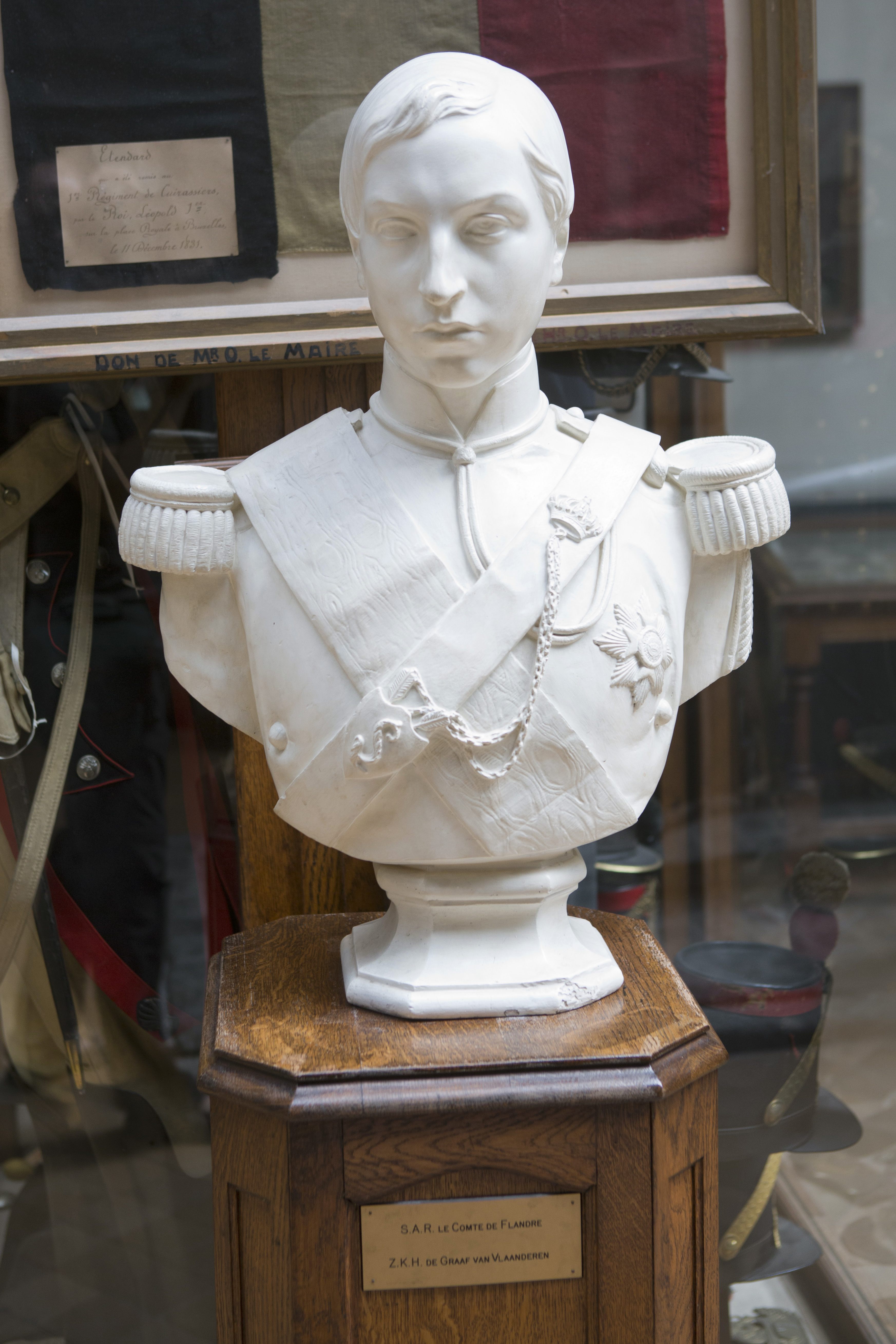 Bust of H.R.H. Prince Philippe, Count of Flanders in 1855. He wears the uniform of the Guides and the Grand Cordon breast star and sash of the Order of Leopold.